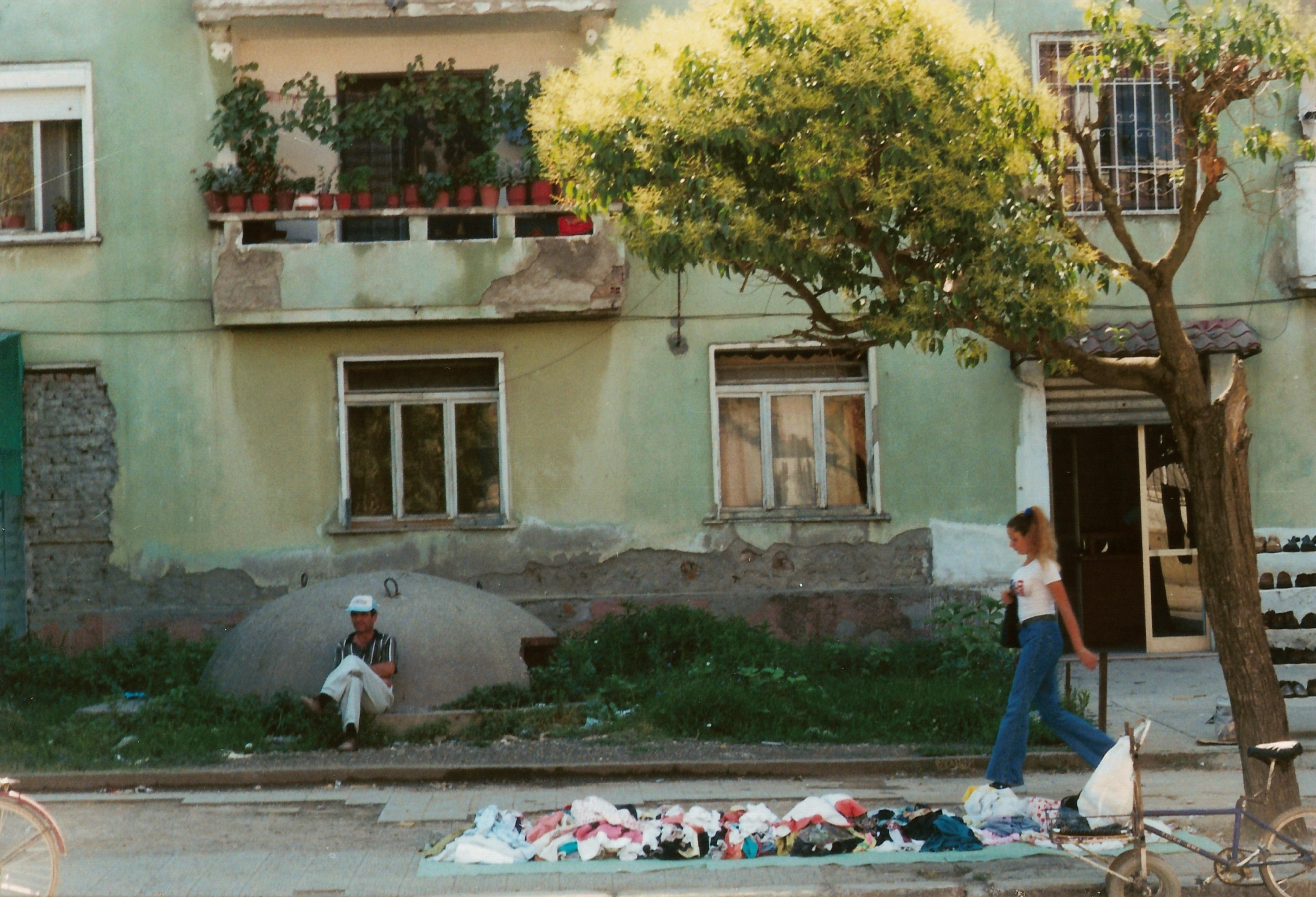 Apartment with bunker in Shkodër (Albania). The man is sitting before a typical Albanian bunker. Scan from a conventional photo. Slightly enhanced with The Gimp.